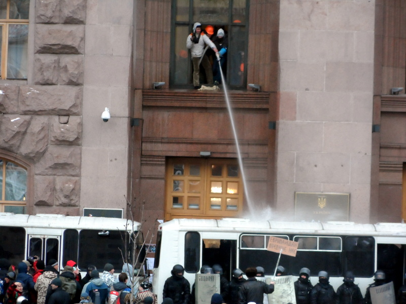 Protesters direct a water hose at riot policemen ranged outside Kiev City Hall, 09.02 am, 11.12.2013